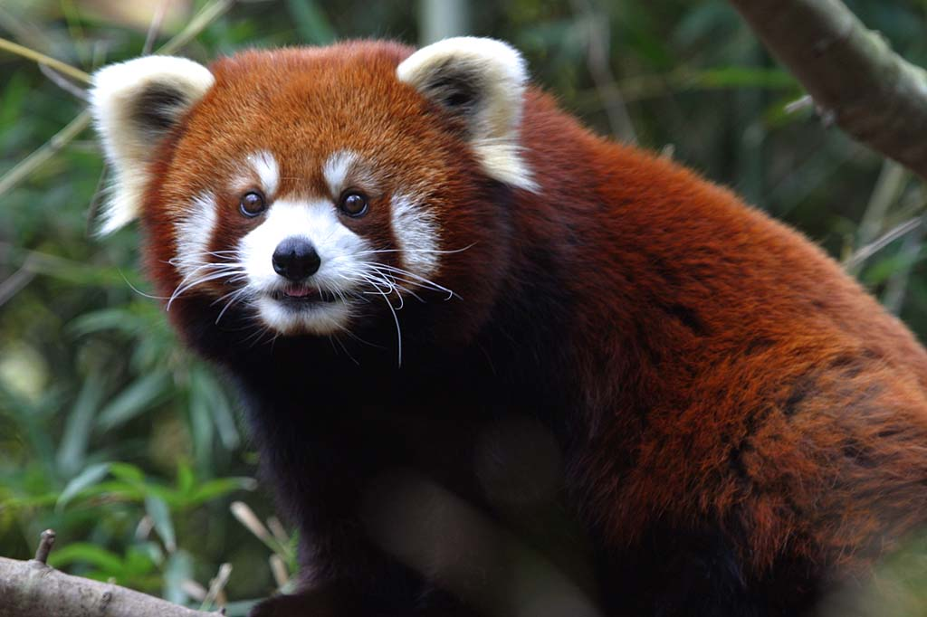 Photo of a Red Panda Taken at the Nashville Zoo in Tennessee on January 20th, 2006